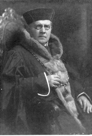 August Naegle, German priest